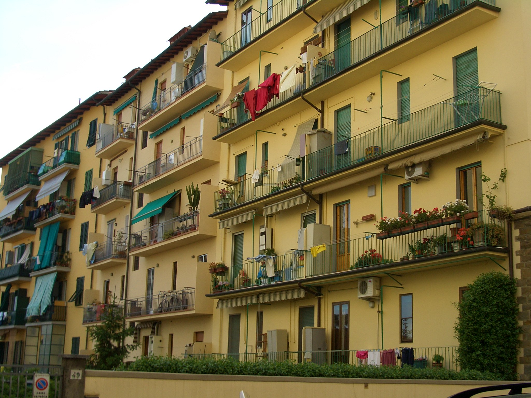 Modern apartment building in Florence, Italy